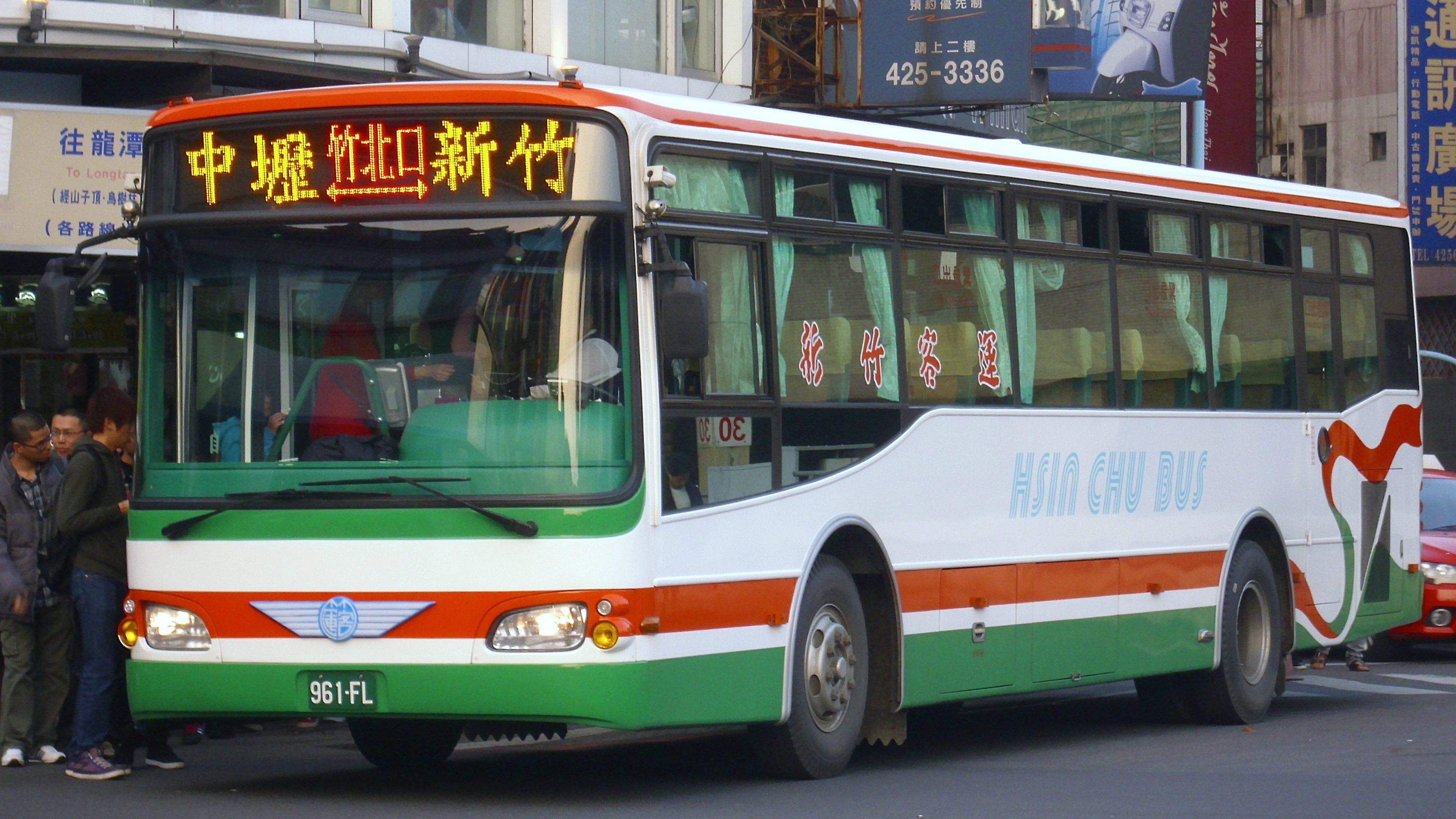 Hsinchu Bus - HINO RK8J chassis bus.